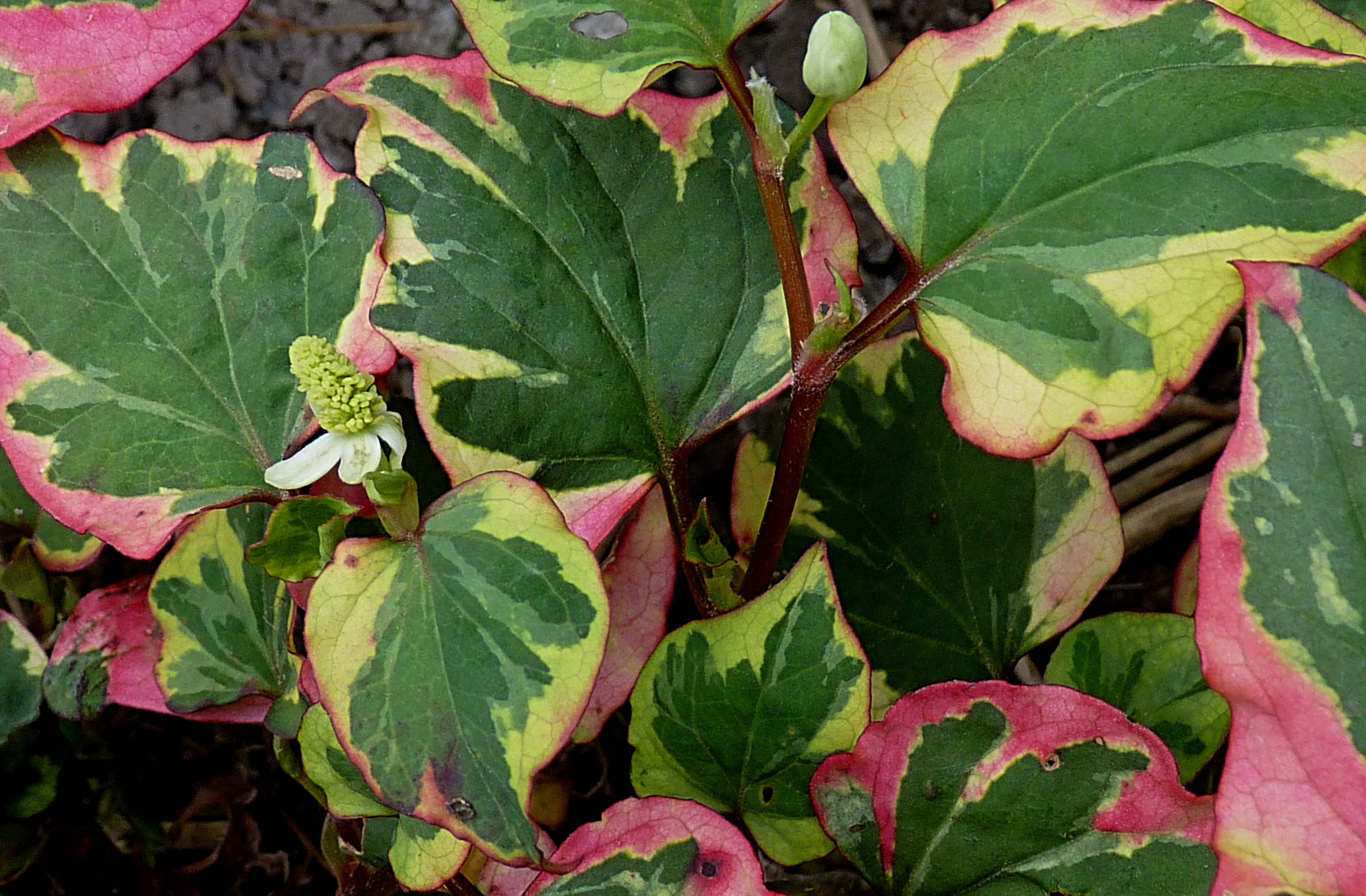 Houttuynia cordata 'Chameleon', in a garden in Belgium.